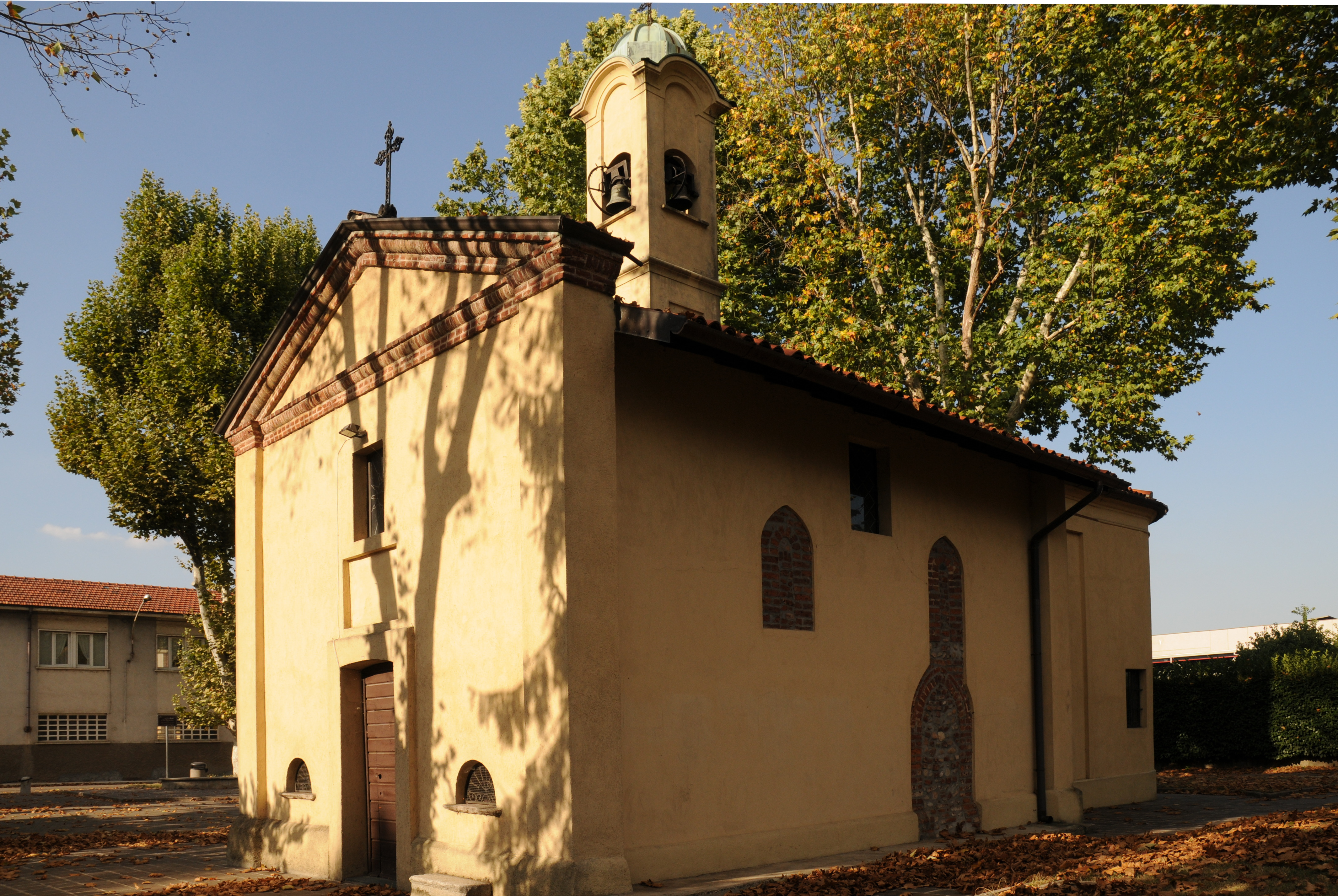 San Bernardino Church in Legnano (Italy)